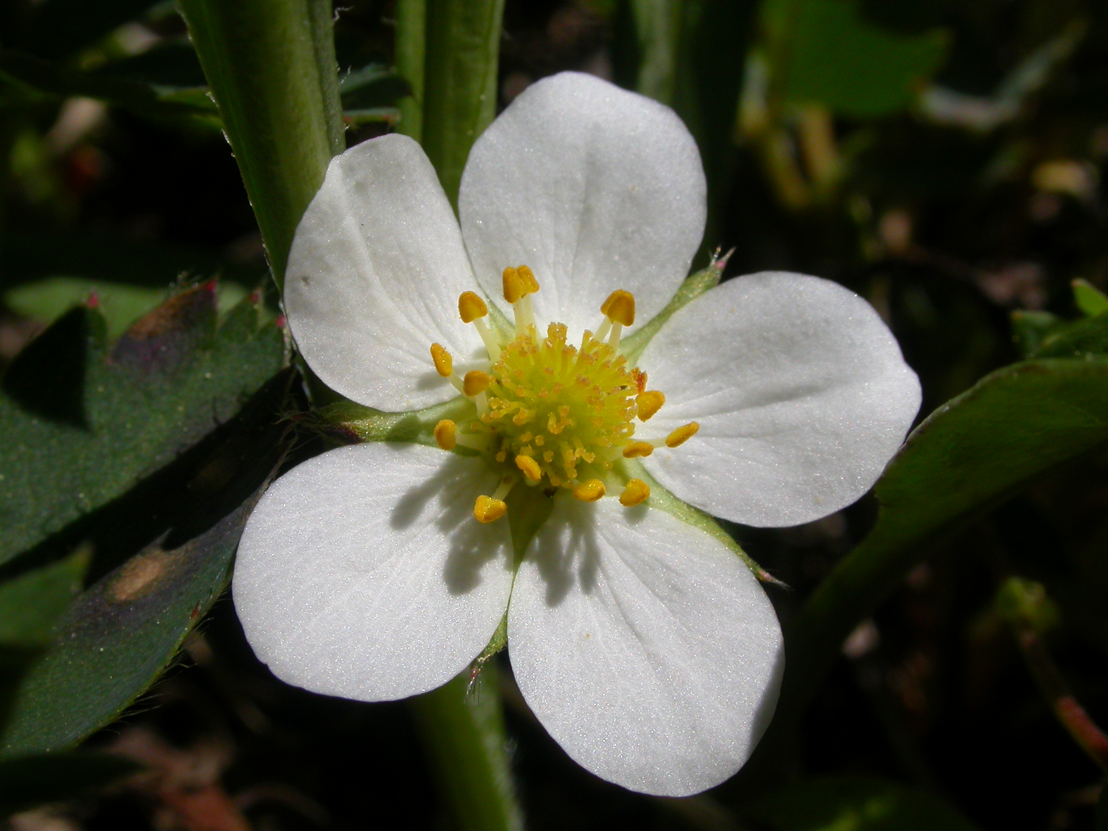 Fragaria virginiana has gray green leaves with less pronounced venation and a terminal tooth that is smaller than the other teeth of the serrate leaf margin.